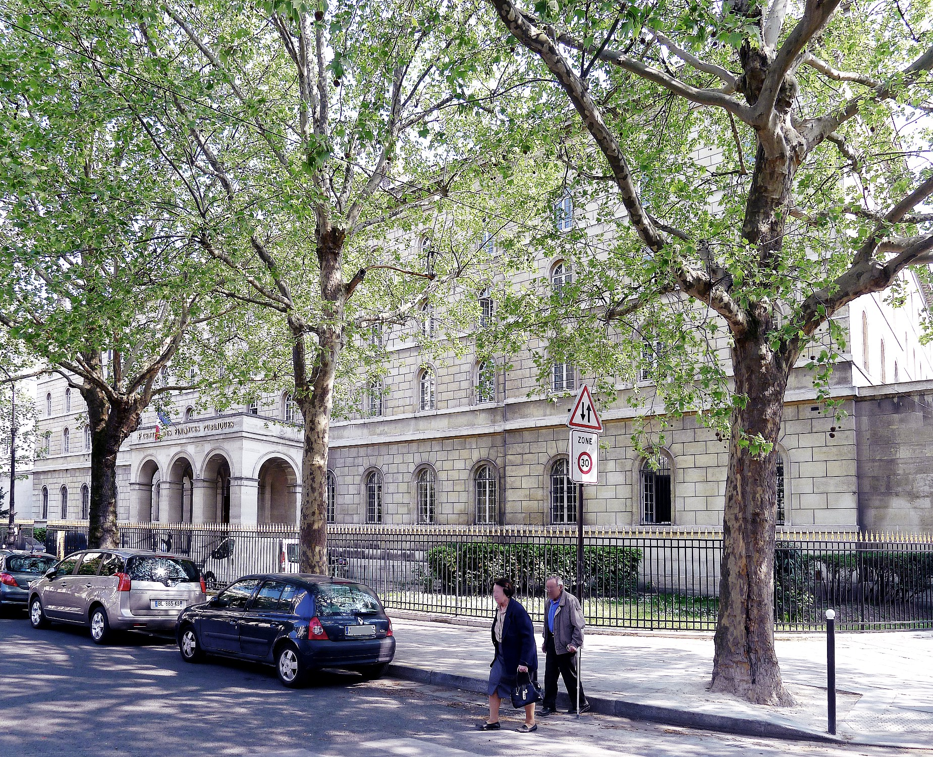 Saint-Sulpice place - Paris